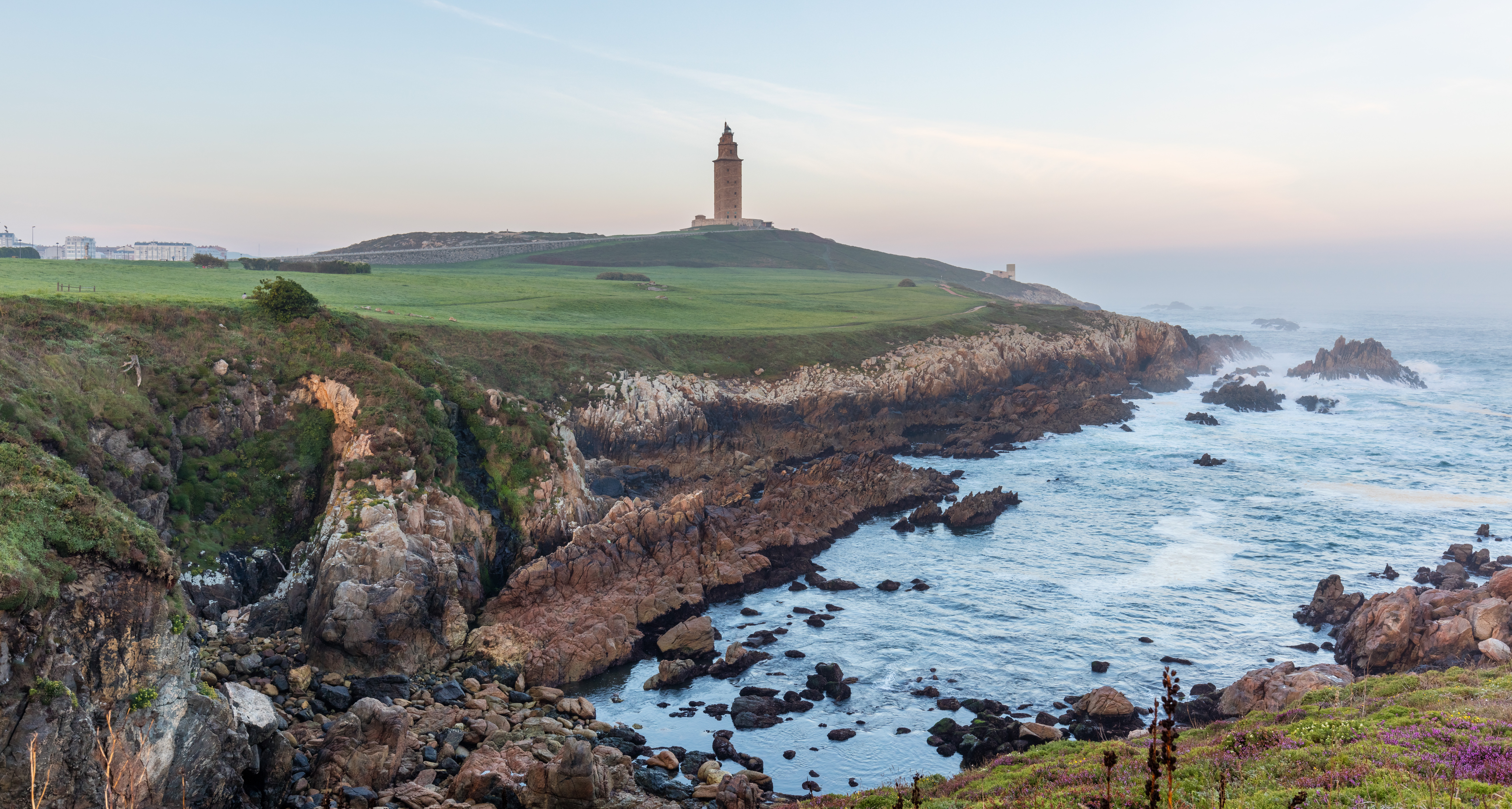 View of the Tower of Hercules and the surrounding area during sunrise. The spot is located near the center of A Coruña, Galicia, north-western coast of Spain. The 55 metres (180 ft) hight tower, an ancient Roman lighthouse, is the oldest (almost 1900 years) Roman lighthouse in use today and the second tallest lighthouse in Spain (after the Faro de Chipiona). The lighthouse was rehabilitated in 1791 and is a UNESCO World Heritage Site since 2009.